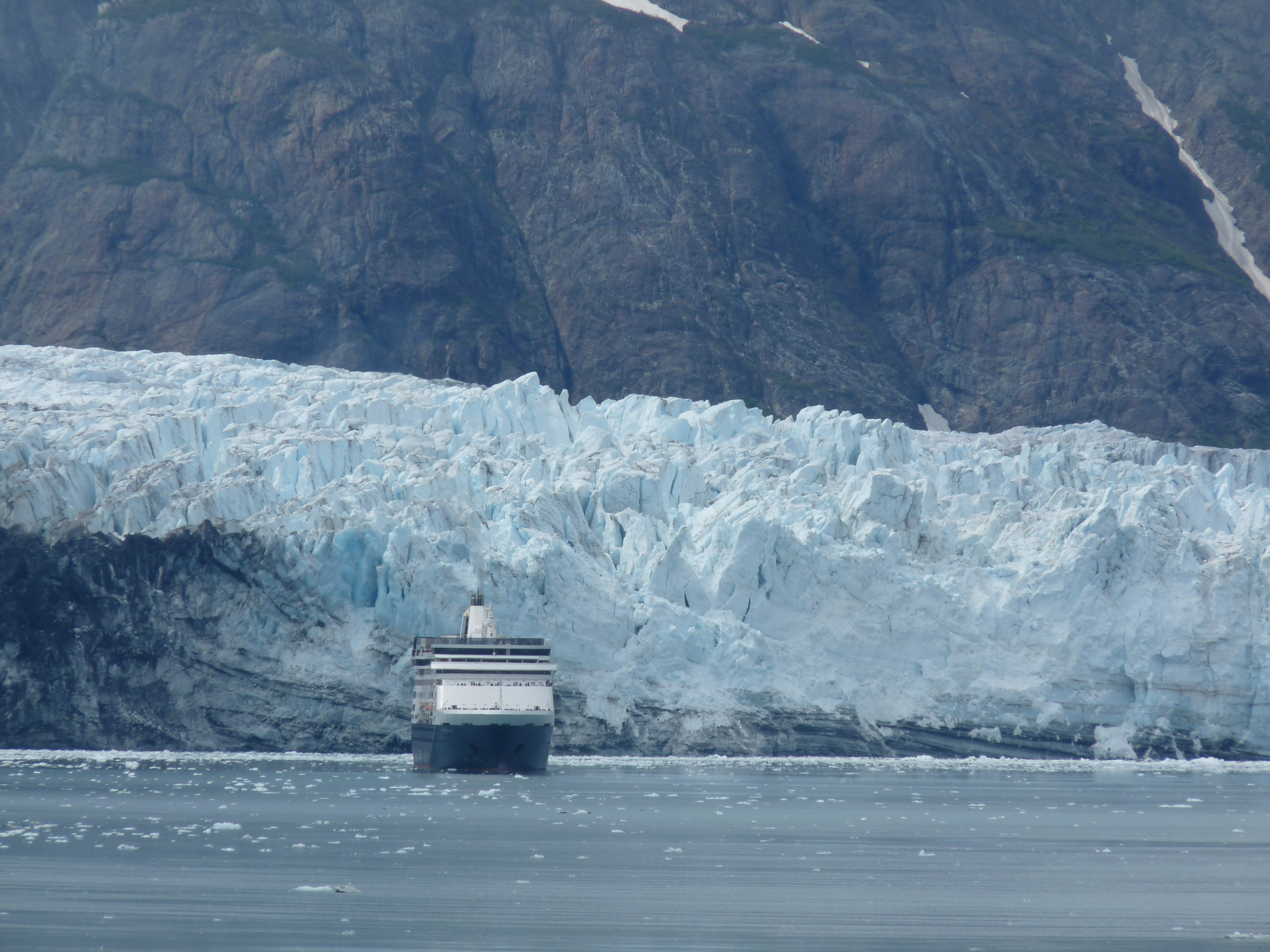 ms Statendam in Glacier Bay from the ms Oosterdam